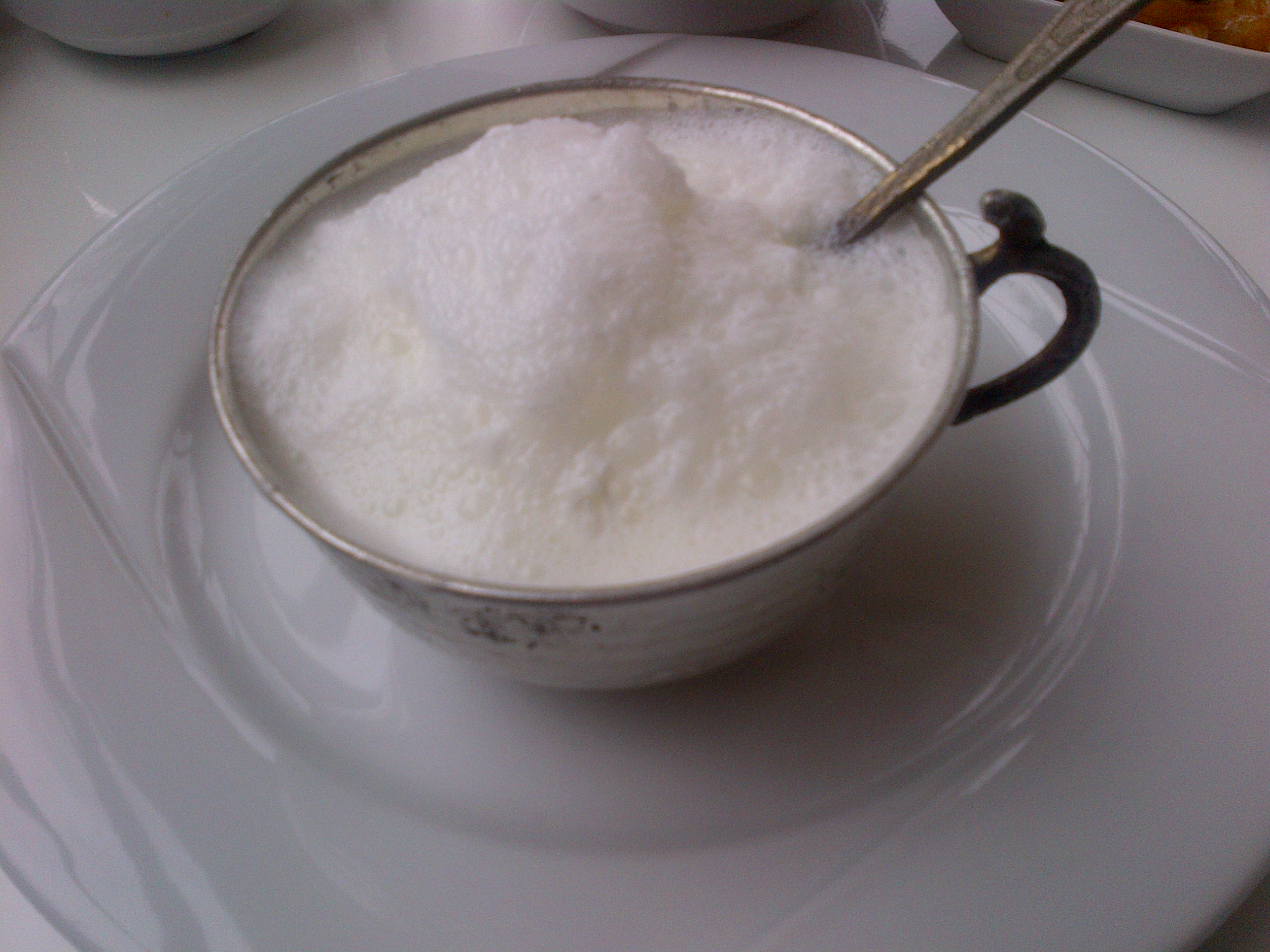 "Yayık ayranı", a kind of home-made ayran.